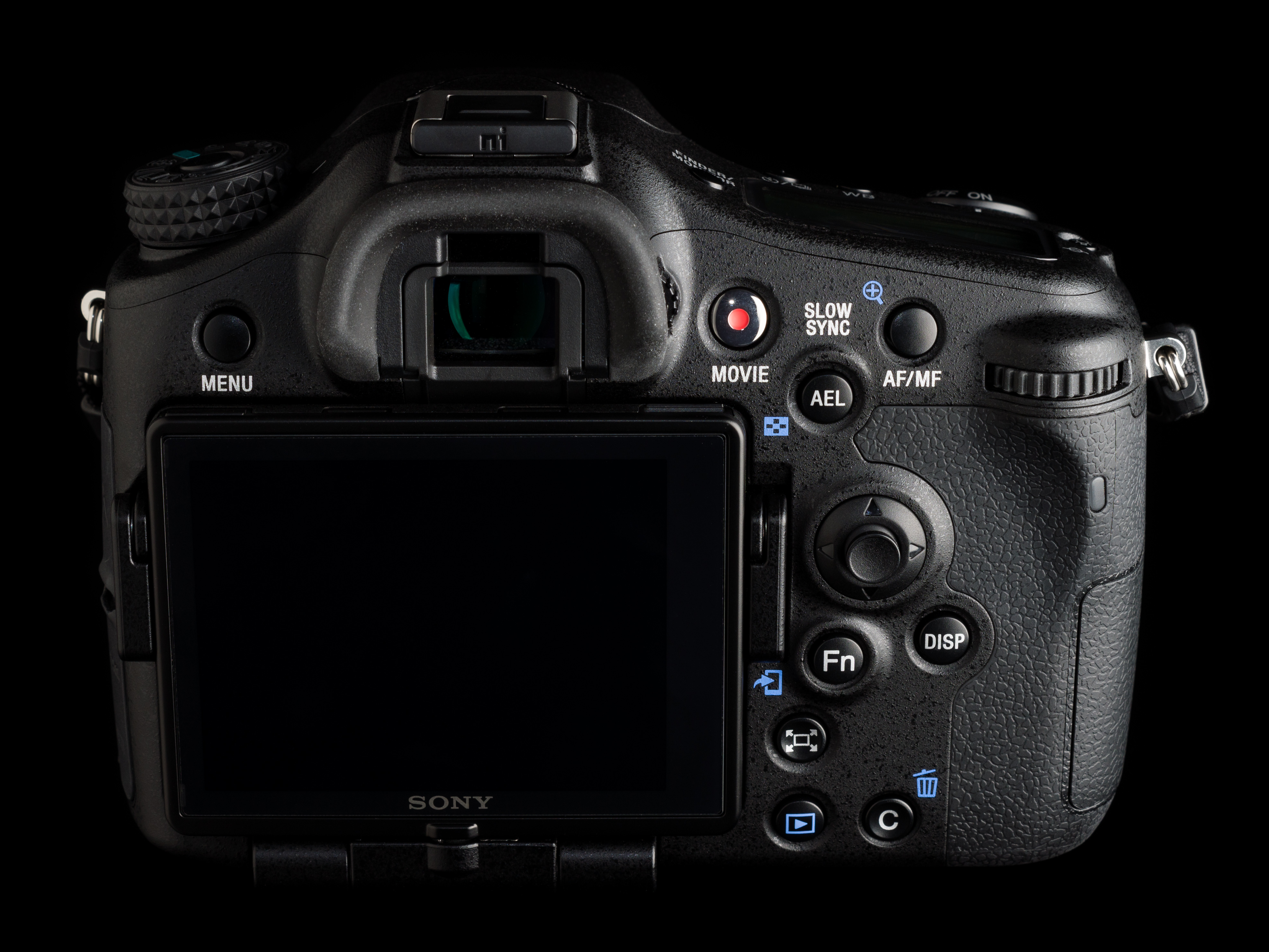 Sony α 77 II A-mount camera - rear side. Photographer's notes: This image was taken with a Sony α33 camera. It was lit by a Sony HVL-F42AM wireless flash (modified by a softbox) positioned to the right of the subject, and a white reflector to the left.